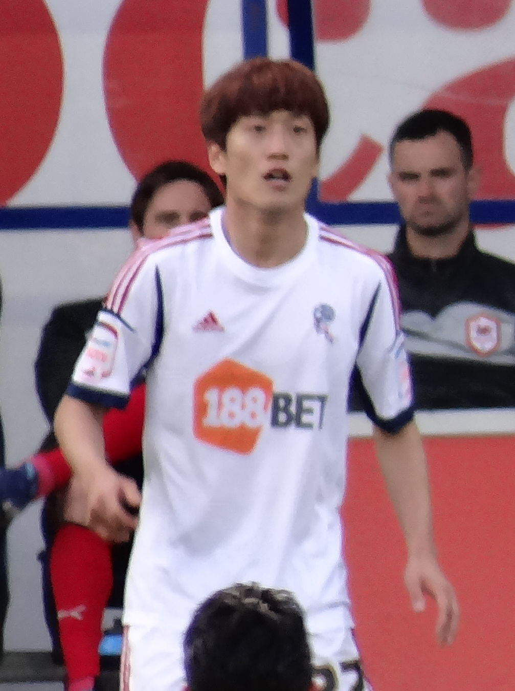 Lee Chung-Yong playing for Bolton Wanderers